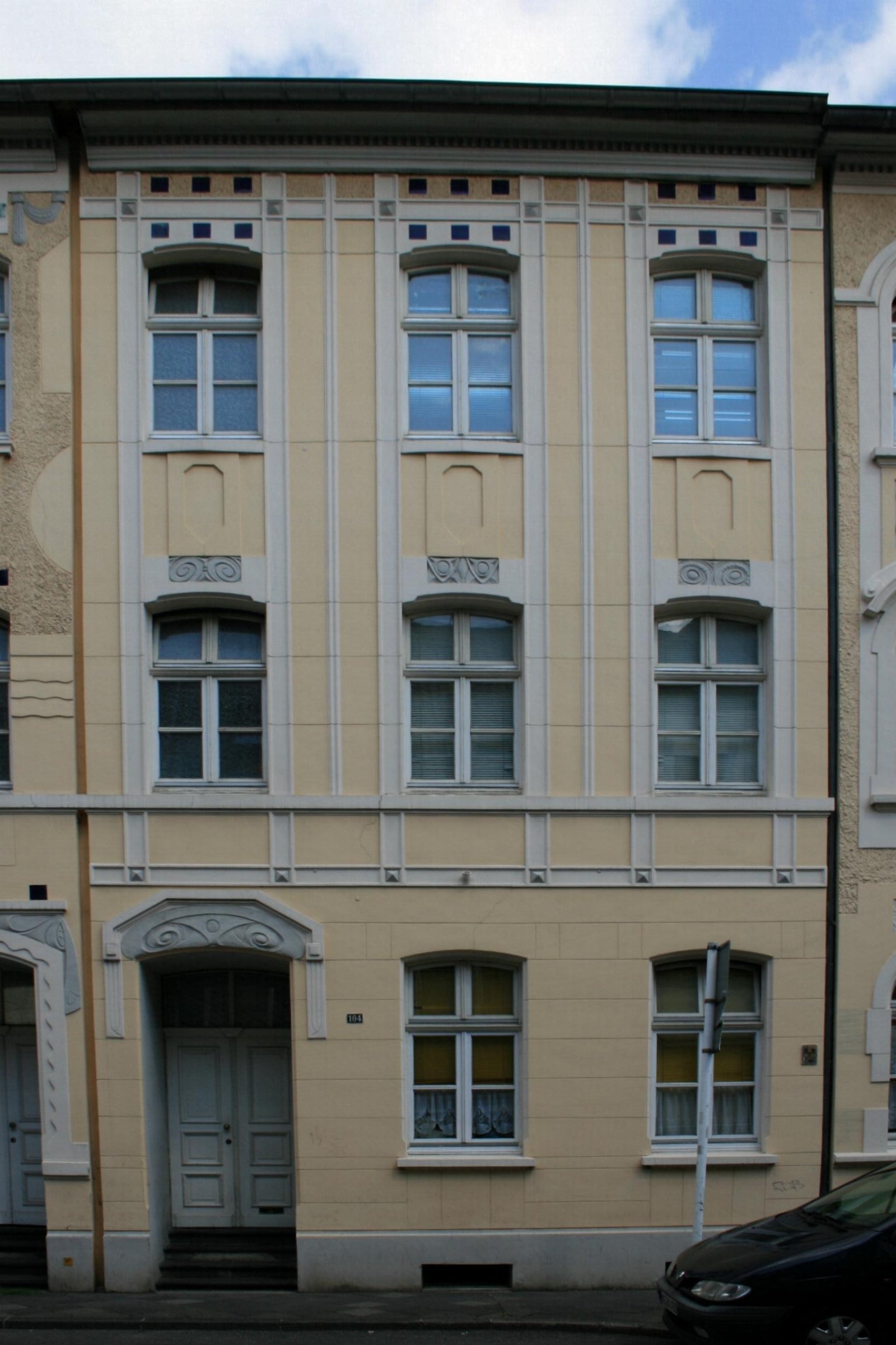 Cultural heritage monument No. W 006 in Mönchengladbach